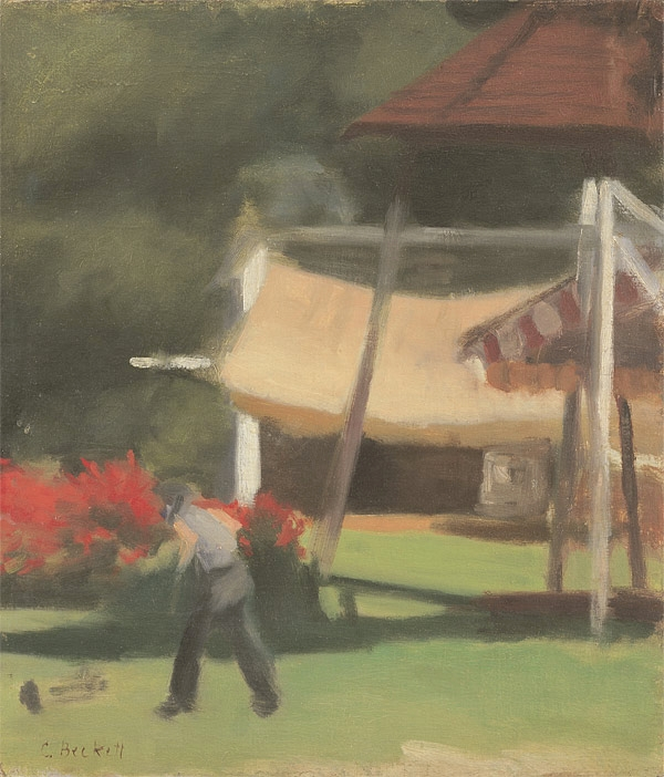 Hawthorn Tea Gardens, painting, oil on canvas laid on pulpboard, 51.0 x 43.7 cm, by Clarice Beckett